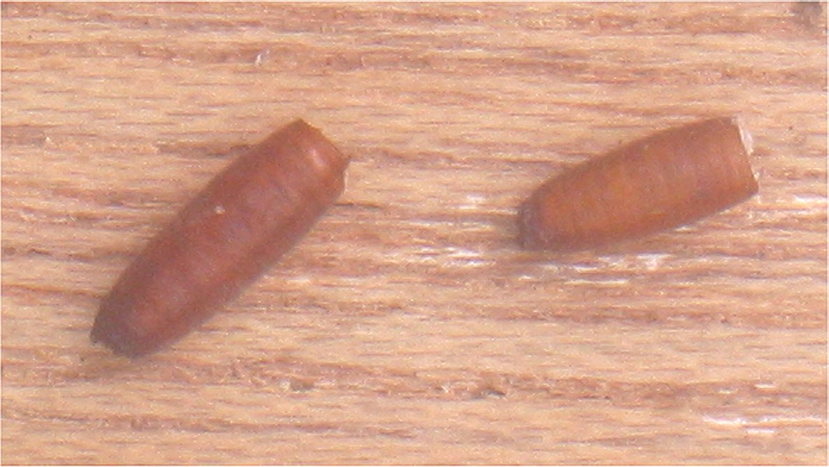 (Koolvlieg lege cocons) Delia brassicae empty cocons